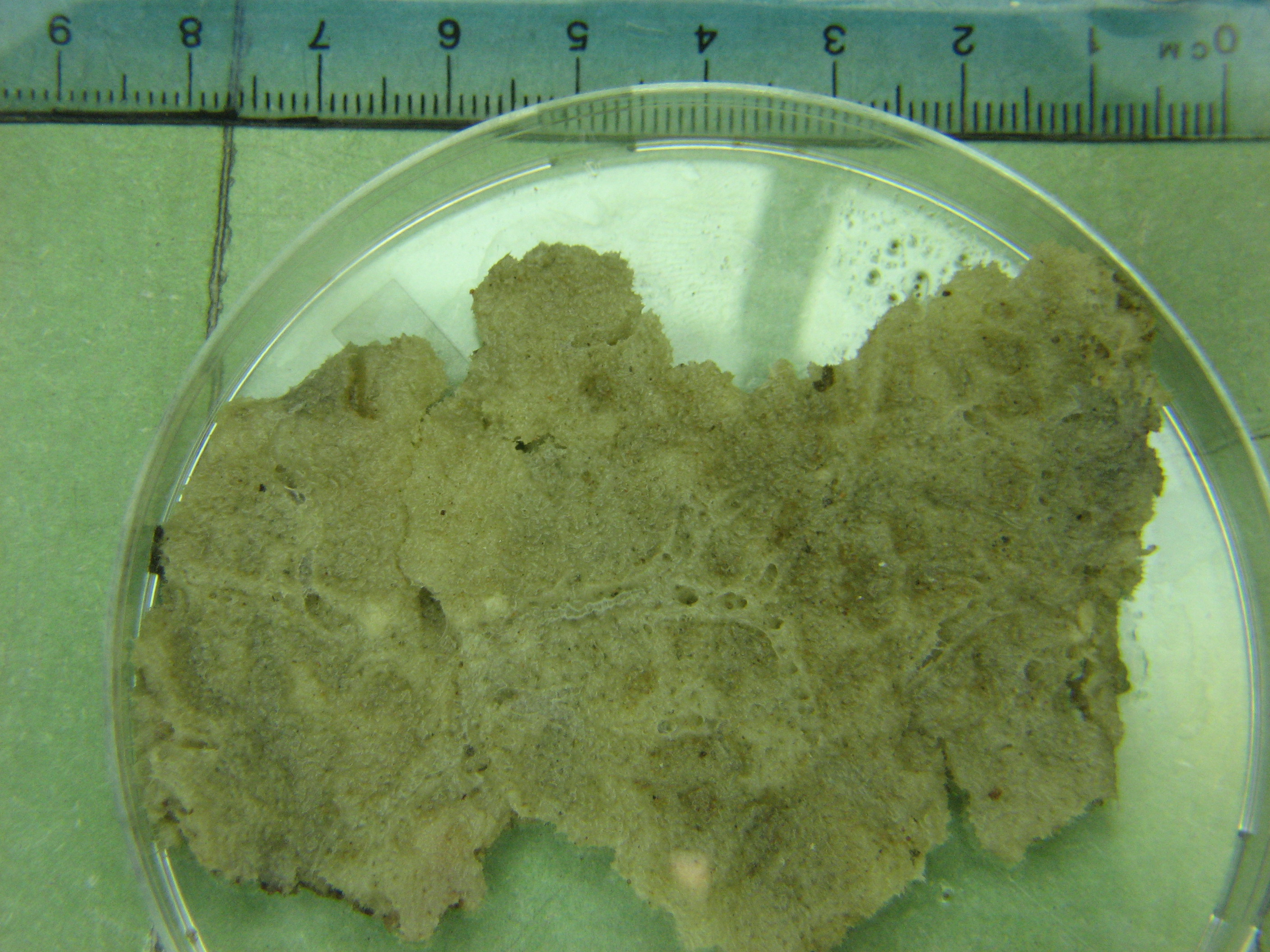 Ephydatia obtained from a sandpit near Kearney, Nebraska 2006. Todd Paulsen, PharmD